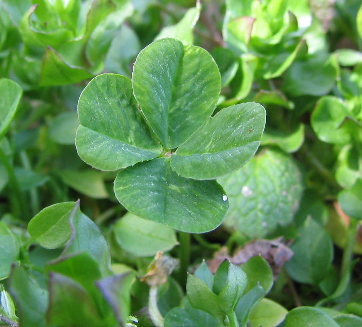 Trifolium repens ?